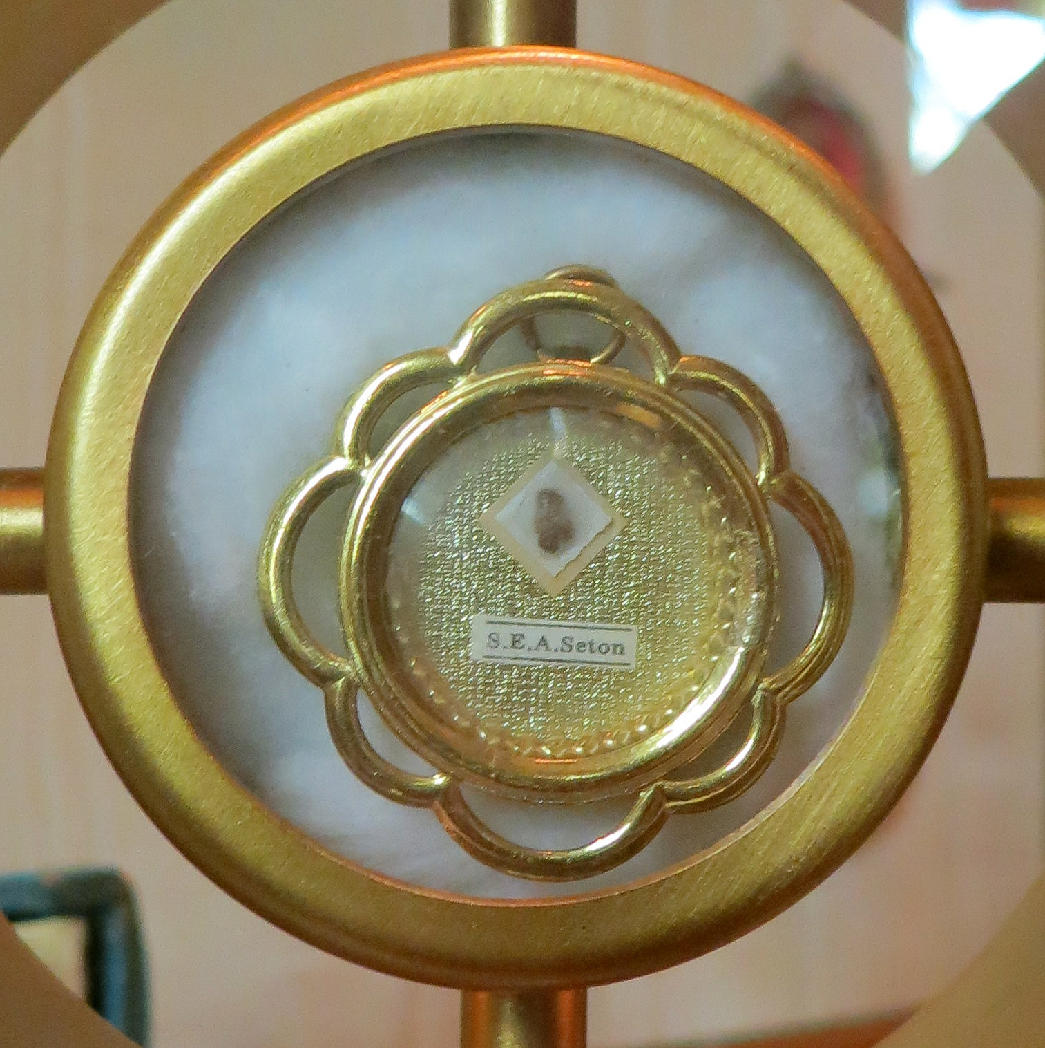 Saint Patrick Catholic Church (Columbus, Ohio) - relics of Saint Elizabeth Ann Seton